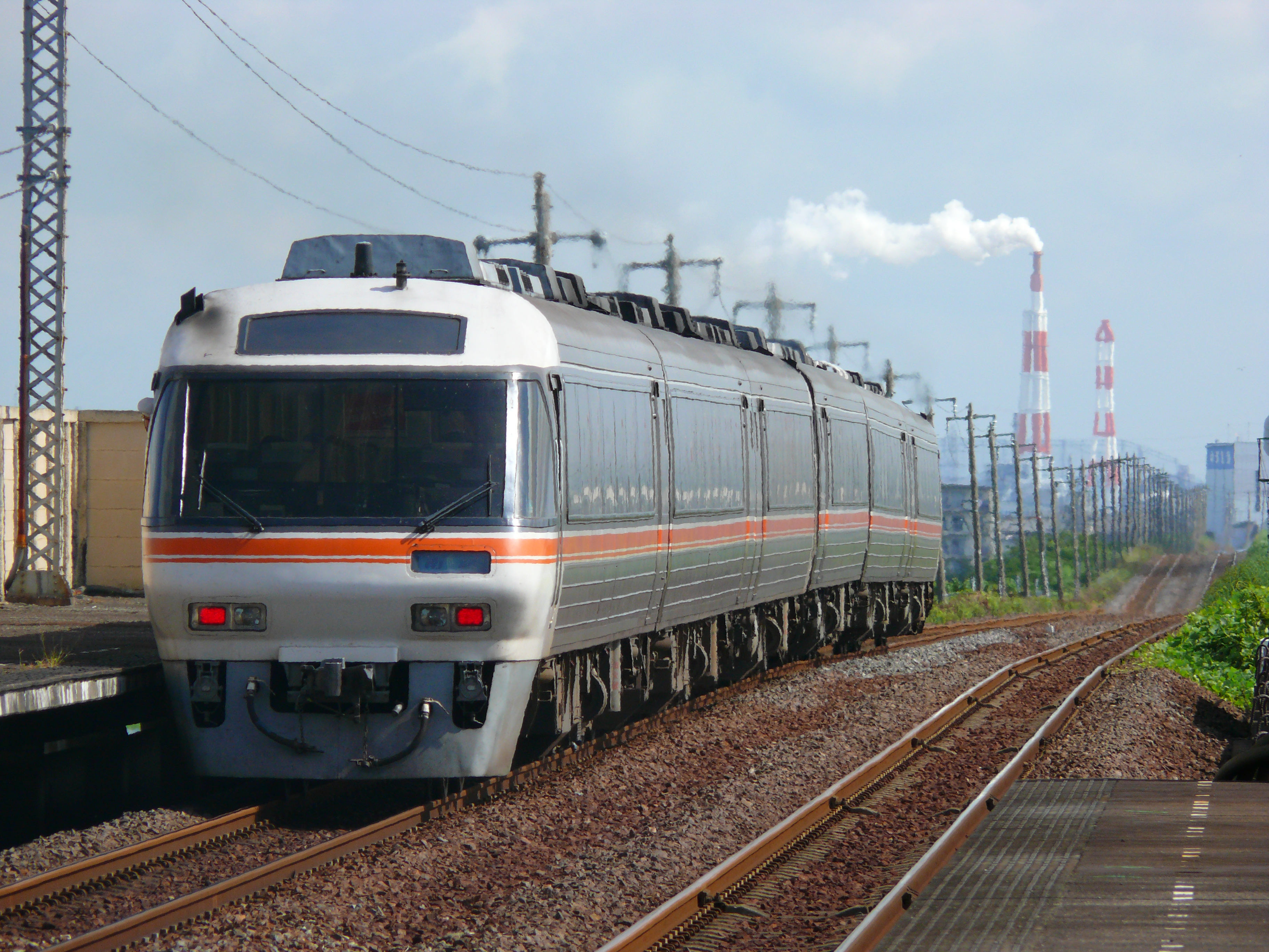 Ise railway Ise line(Mie-prefecture,Japan).